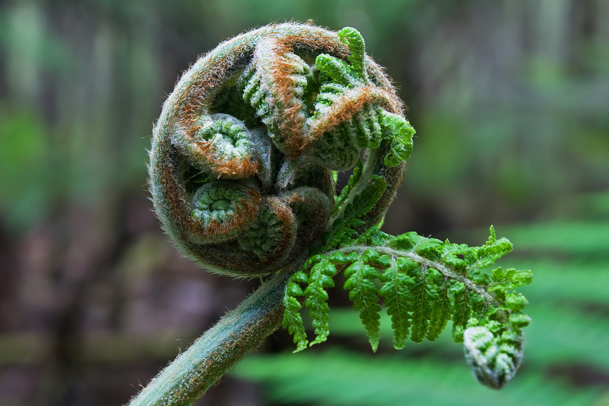 Soft Tree Fern, Man Fern or Tasmanian Tree Fern (Dicksonia antarctica) Shot in Mount Field National Park. Tasmania, Australia Camera data Camera Canon EOS 400D Lens Canon EF-S 18-55mm f3.5-5.6 IS Focal length 55 mm Aperture f/10 Exposure time 0.8 s Sensivity ISO 400